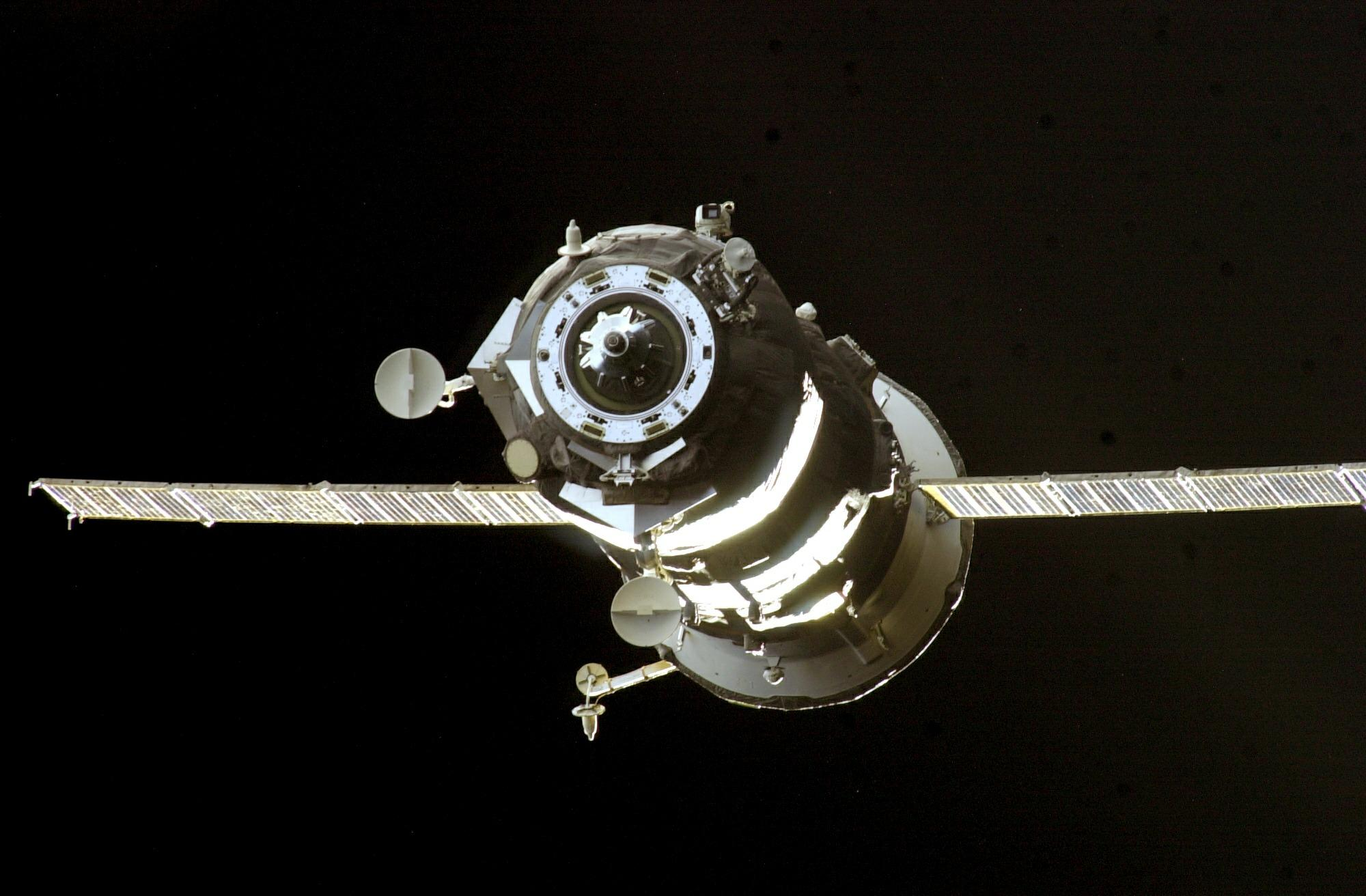 Progress M-49 seen from the International Space Station during undocking.